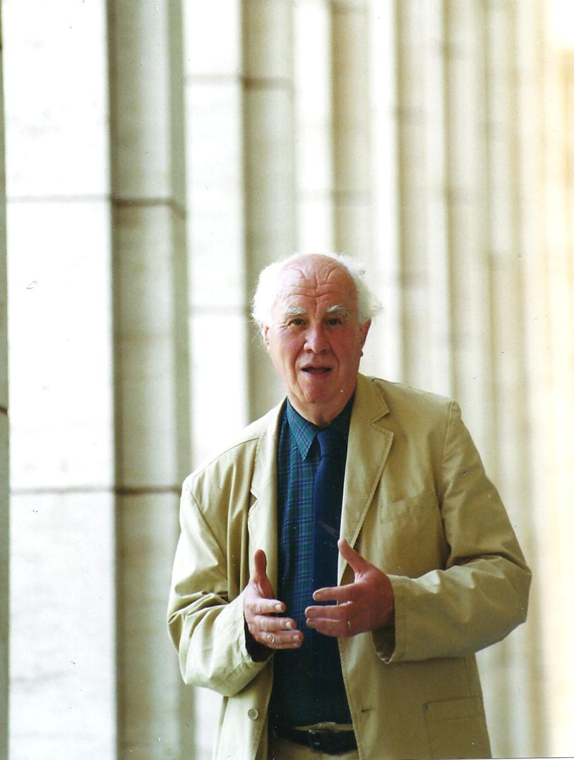 photo